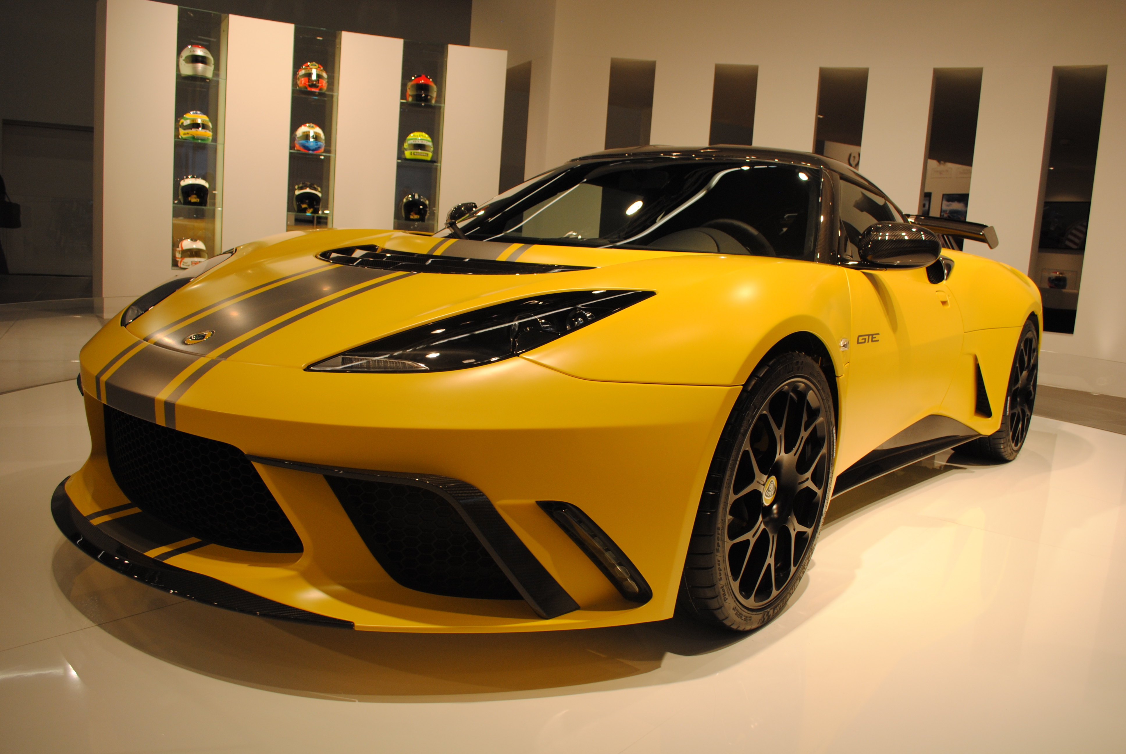 For more info + images, please check